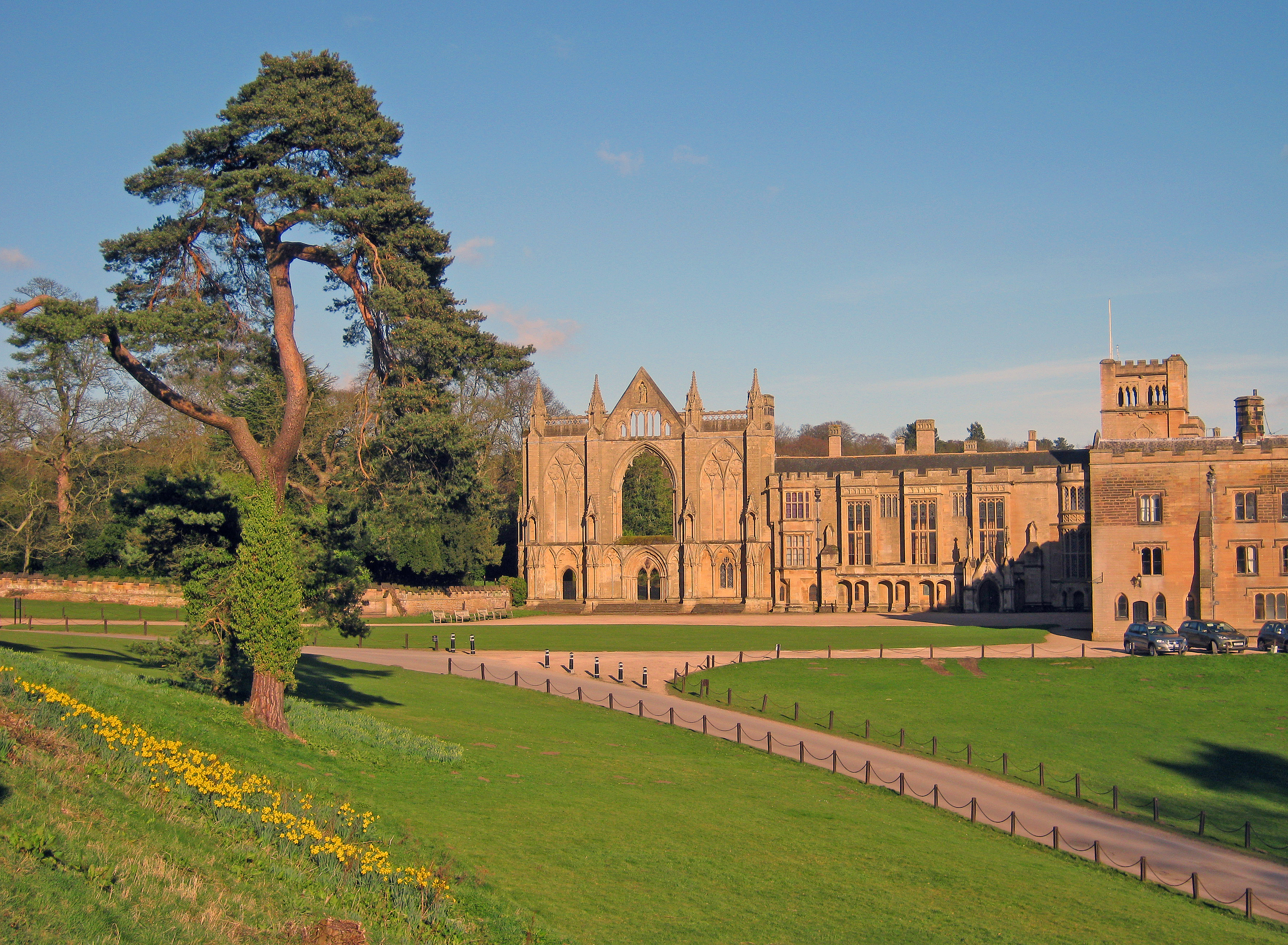 Daffodils at Newstead Abbey - 2